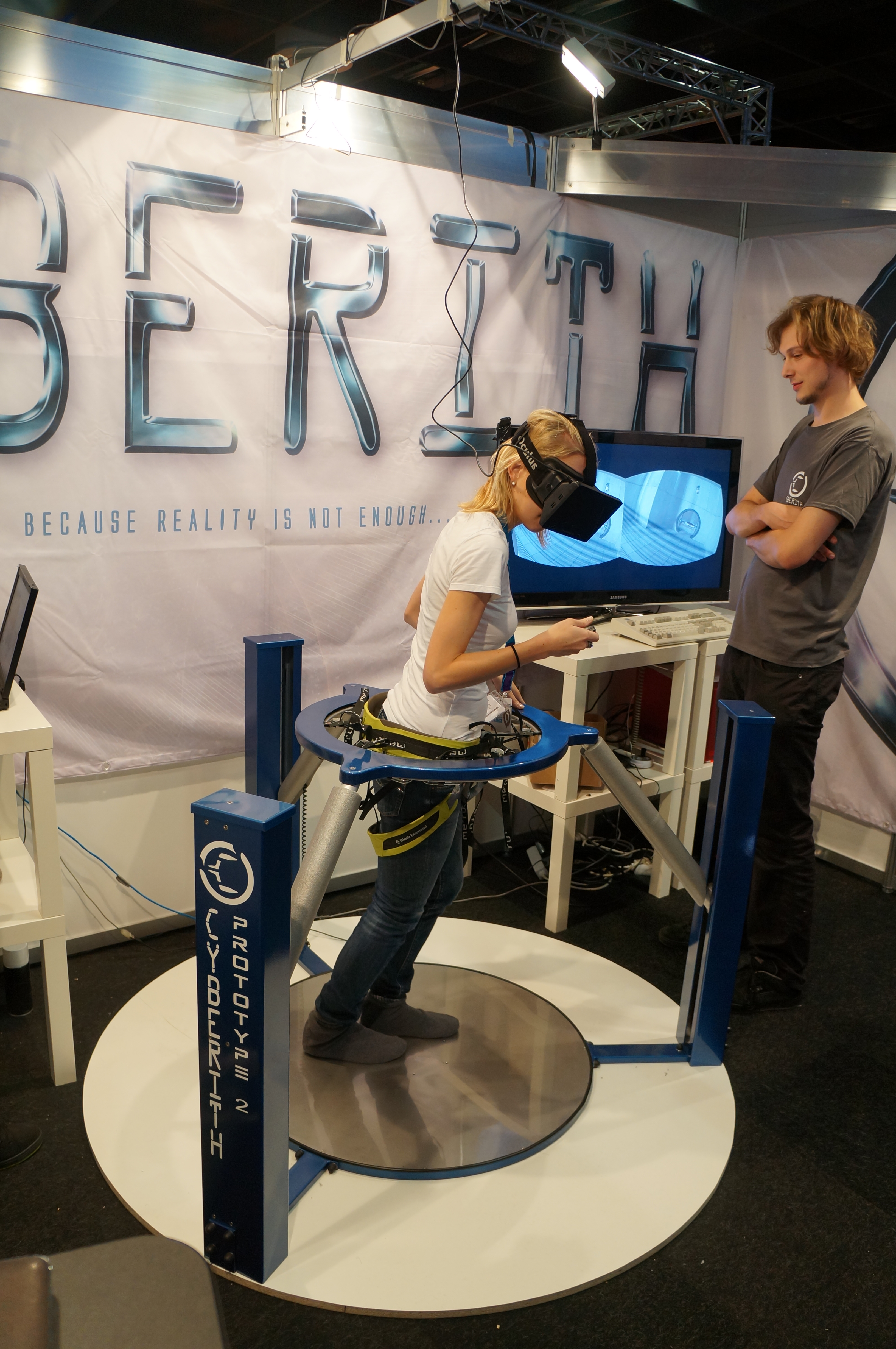 An omnidirectional treadmill, the Cyberith Virtualizer, at the gamescom 2013